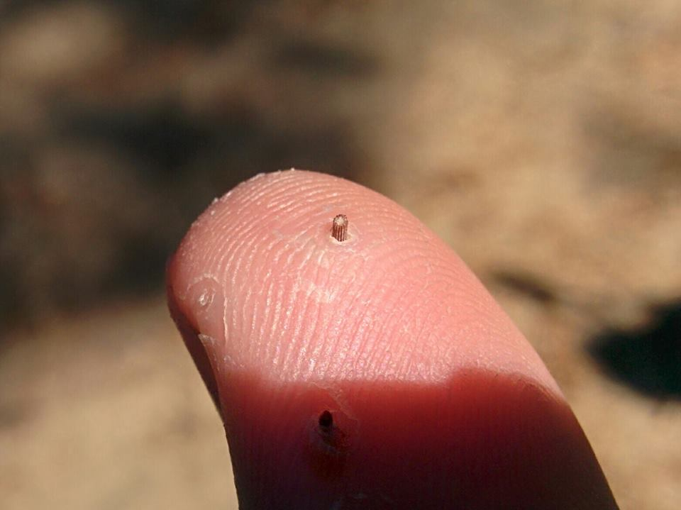 Mediterranean black sea urchin sting getting expelled from the body by itself after 2 weeks. Croatia